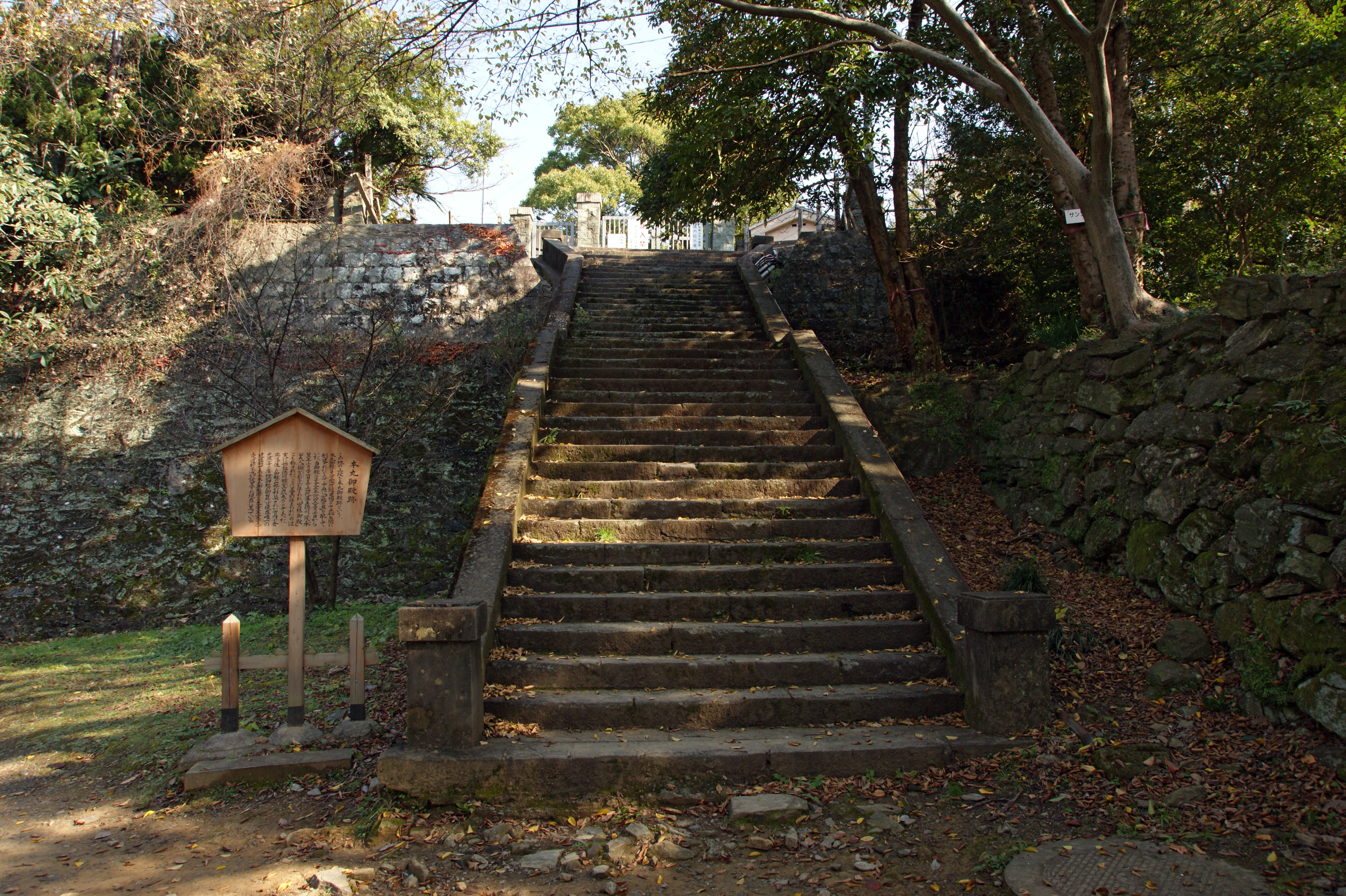 Wakayama Castle, Wakayama, Wakayama prefecture, Japan